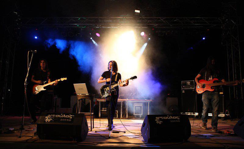 Phase live in Elassona, Greece